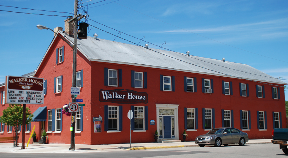 146 High Street, Walker House, Southampton